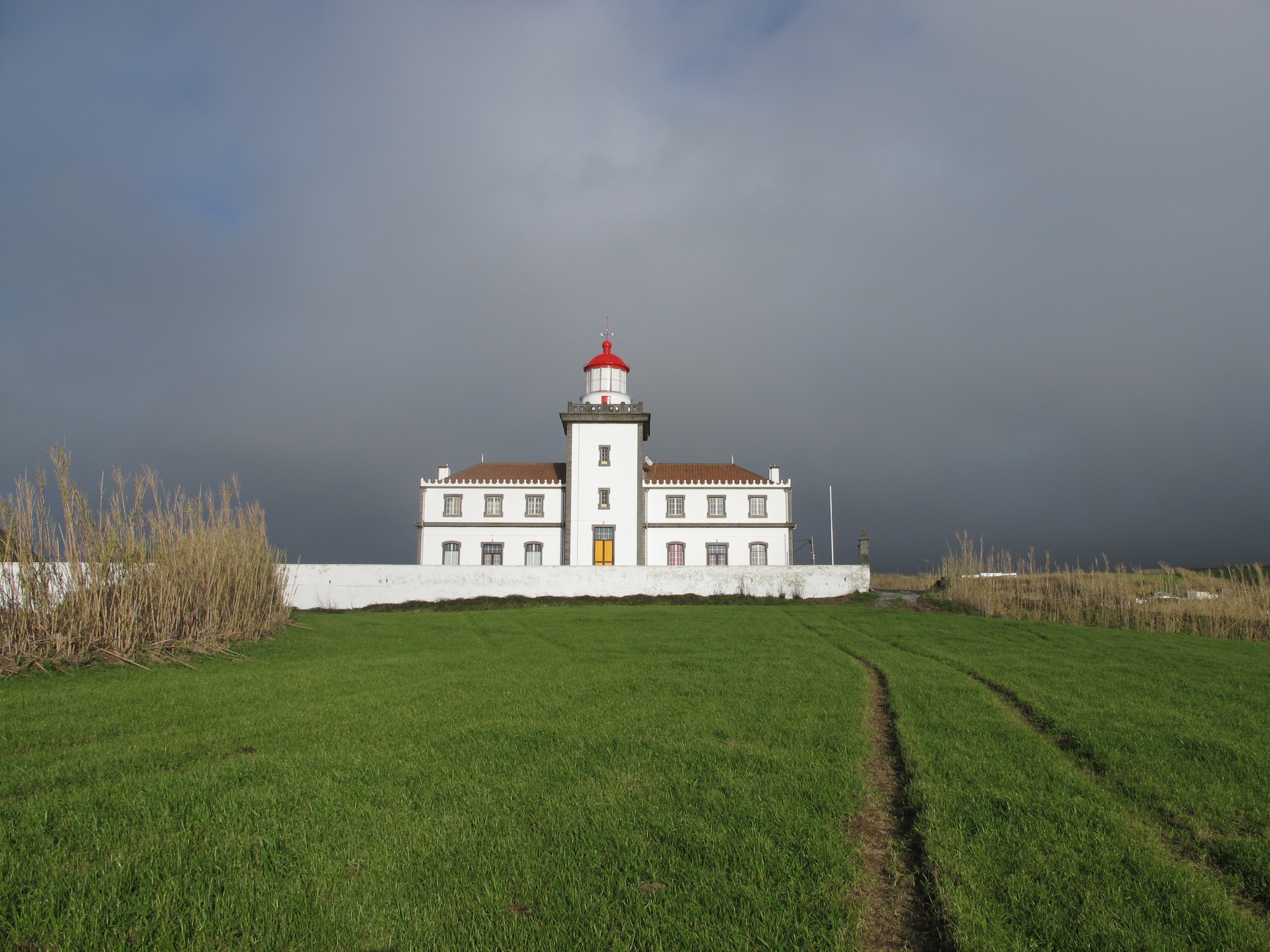 Lighthouse Farol de Ferraria, Azores, January 2016